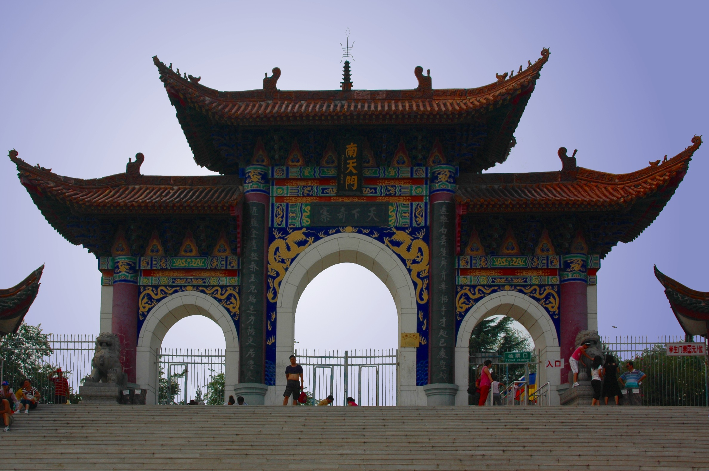 Nantianmen (南天们): the main entrance of Baodu Zhai, Shijiazhuang, China.